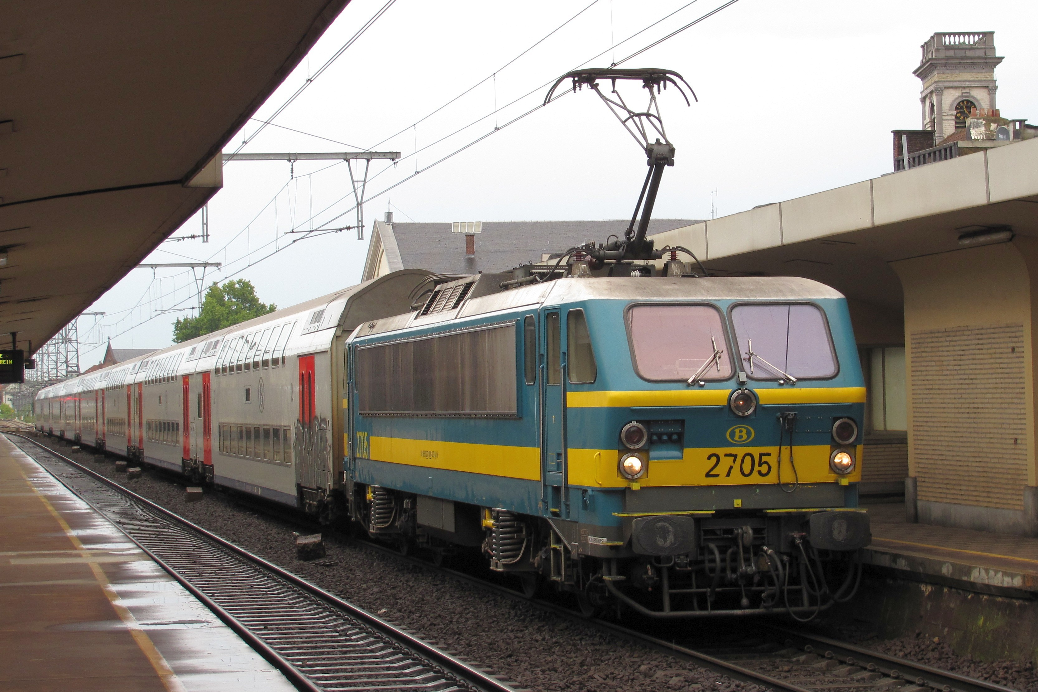 Brussels-North Railway Station